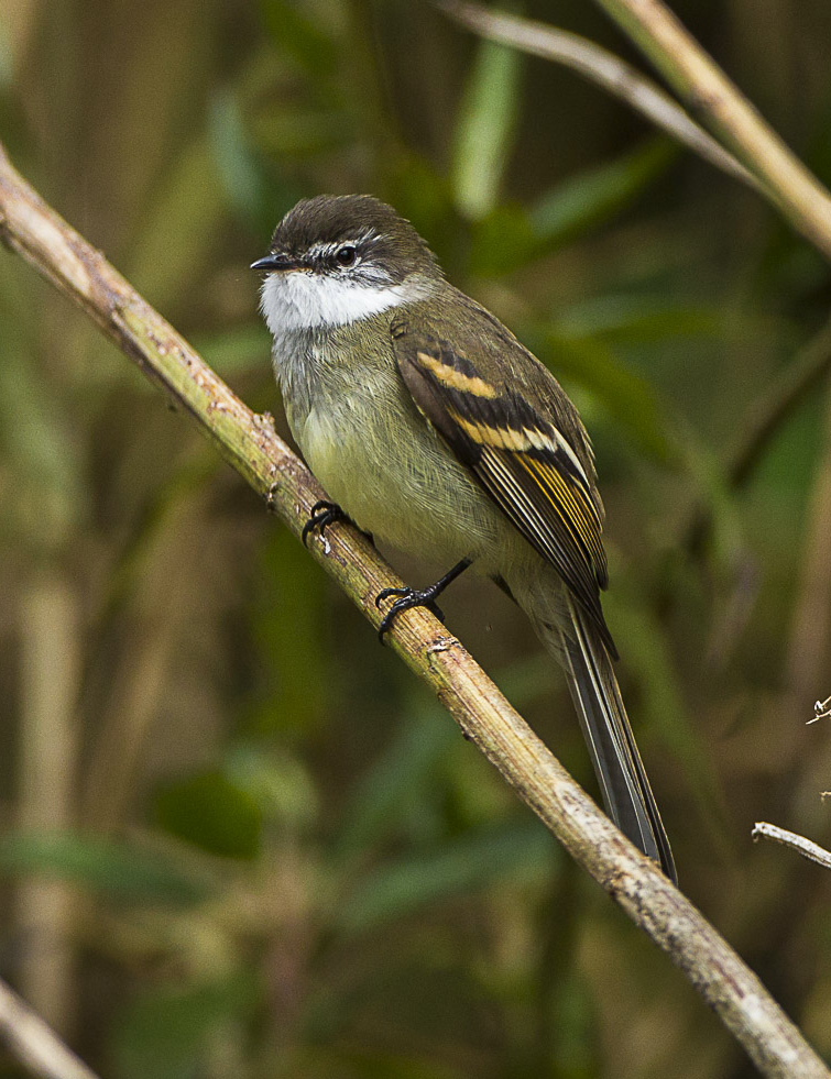 White-throated Tyrannulet - Colombia_S4E1366